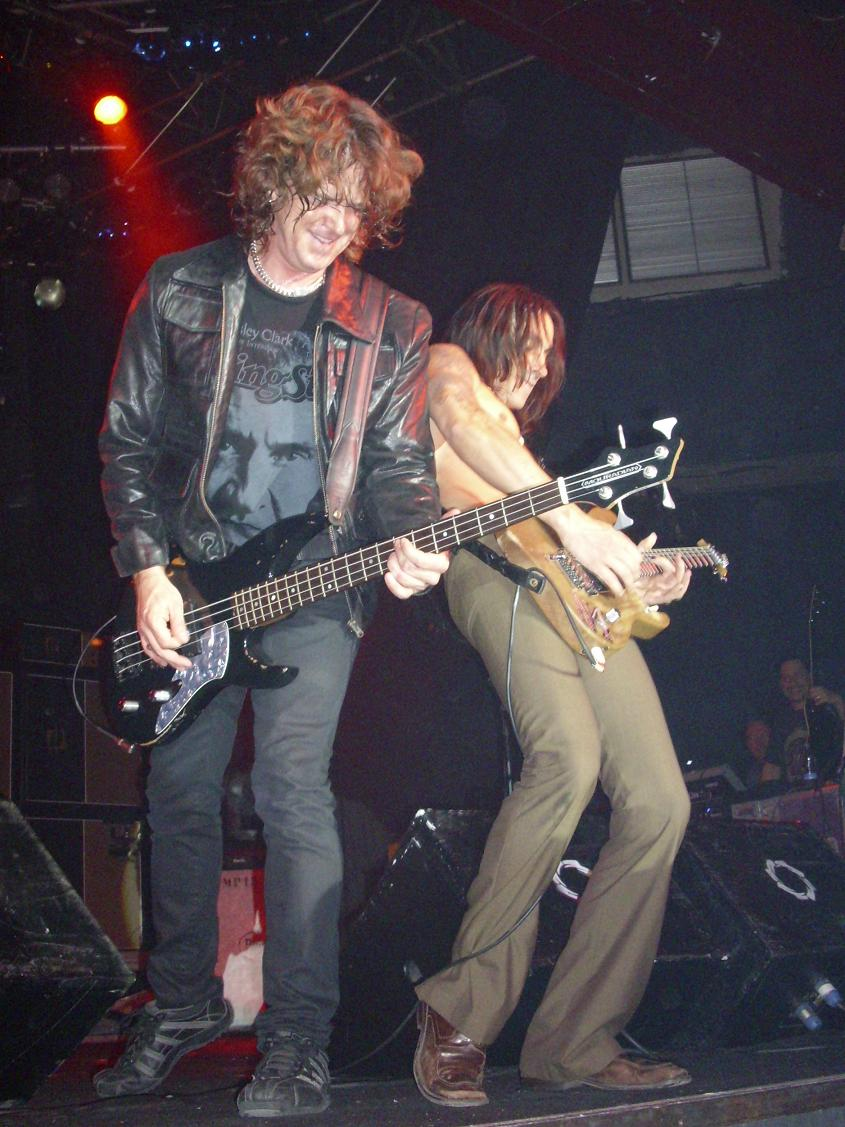 Sala La Riviera Madrid , 31 Octubre 2008 Pat Badger and Nuno Bettencourt